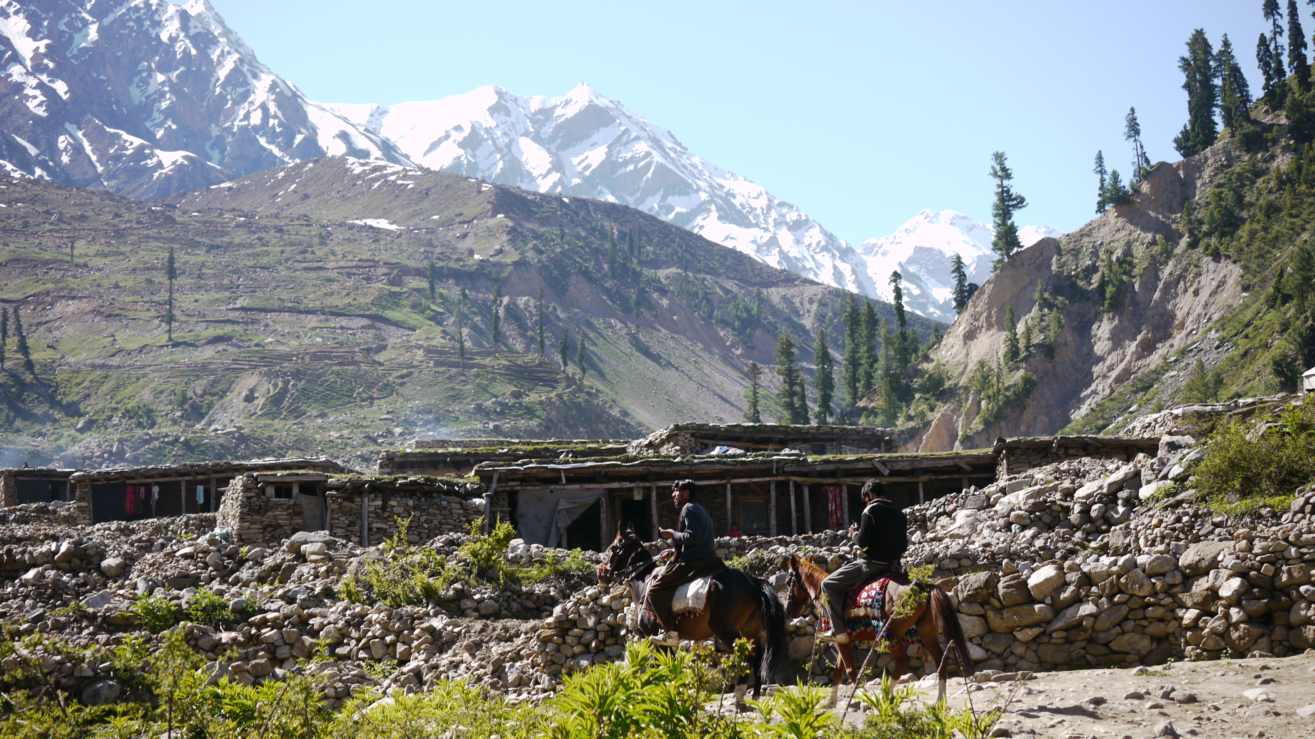 Local people living in deep mountains.